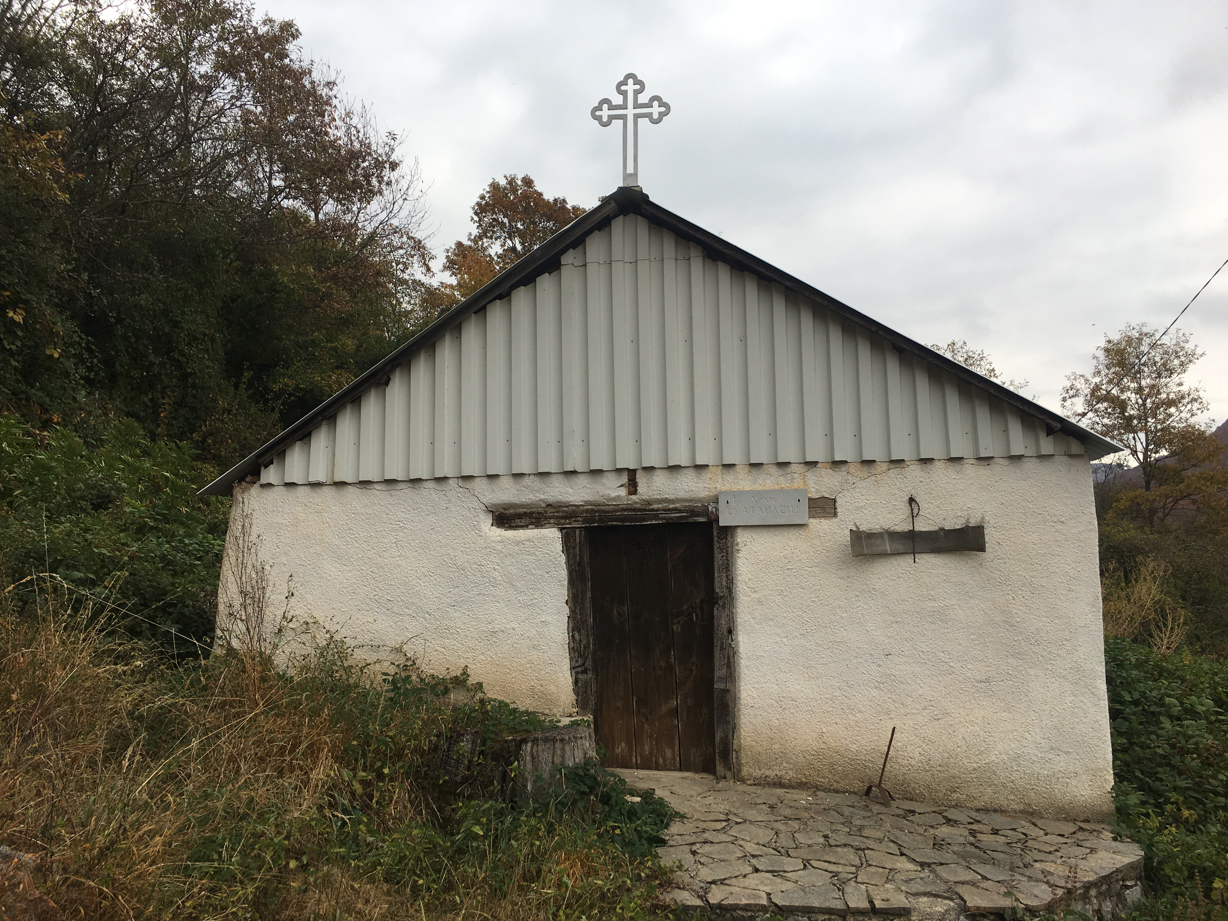 Wikiexpedition to Kopačka